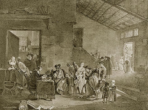 Engraving by Jean-Jacques André Le Veau (1729-1785) after a painting by Philibert-Louis Debucourt